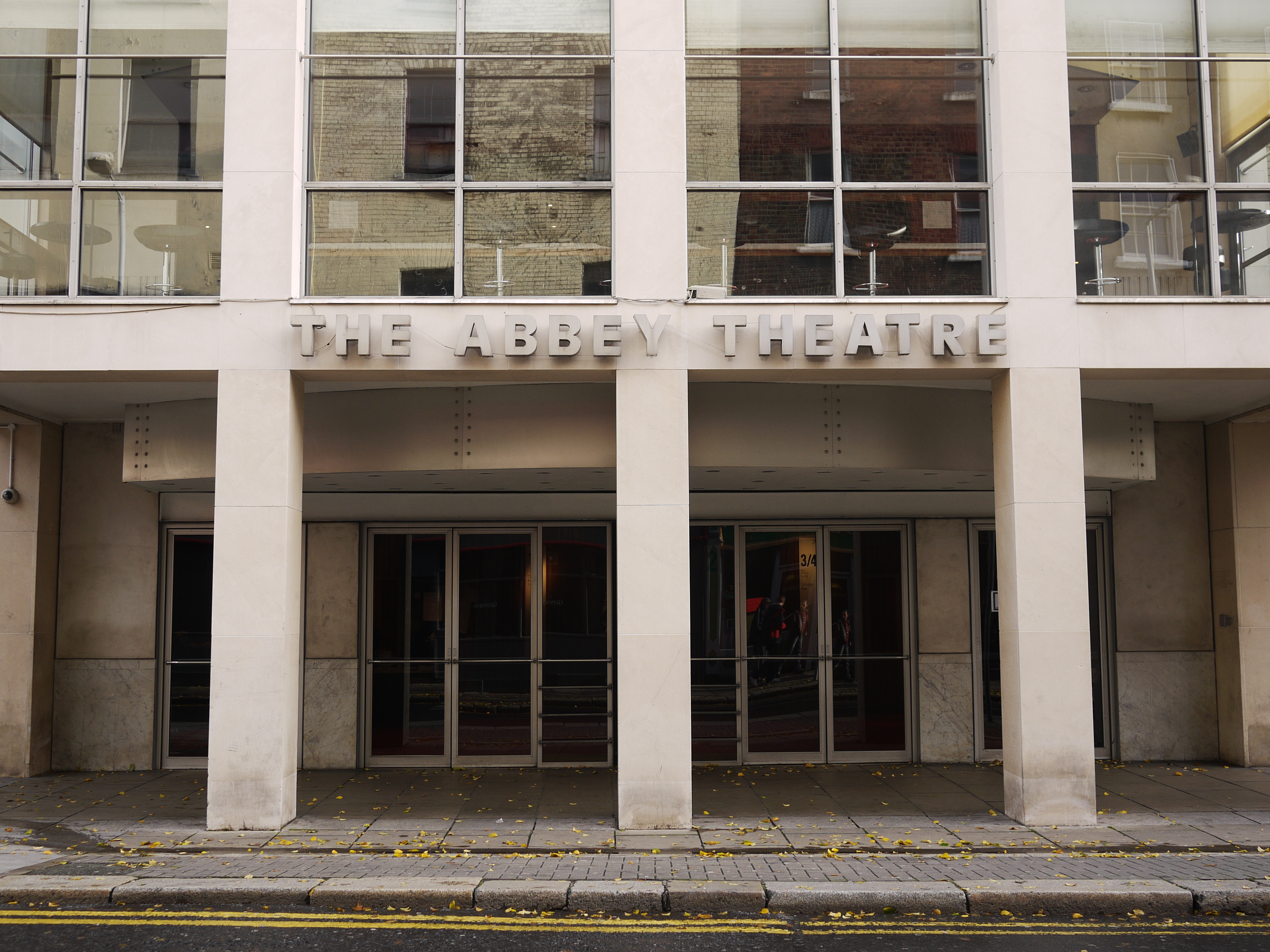 Façade of the Abbey Theatre (Irish: Amharclann na Mainistreach), also known as the National Theatre of Ireland, in Dublin.